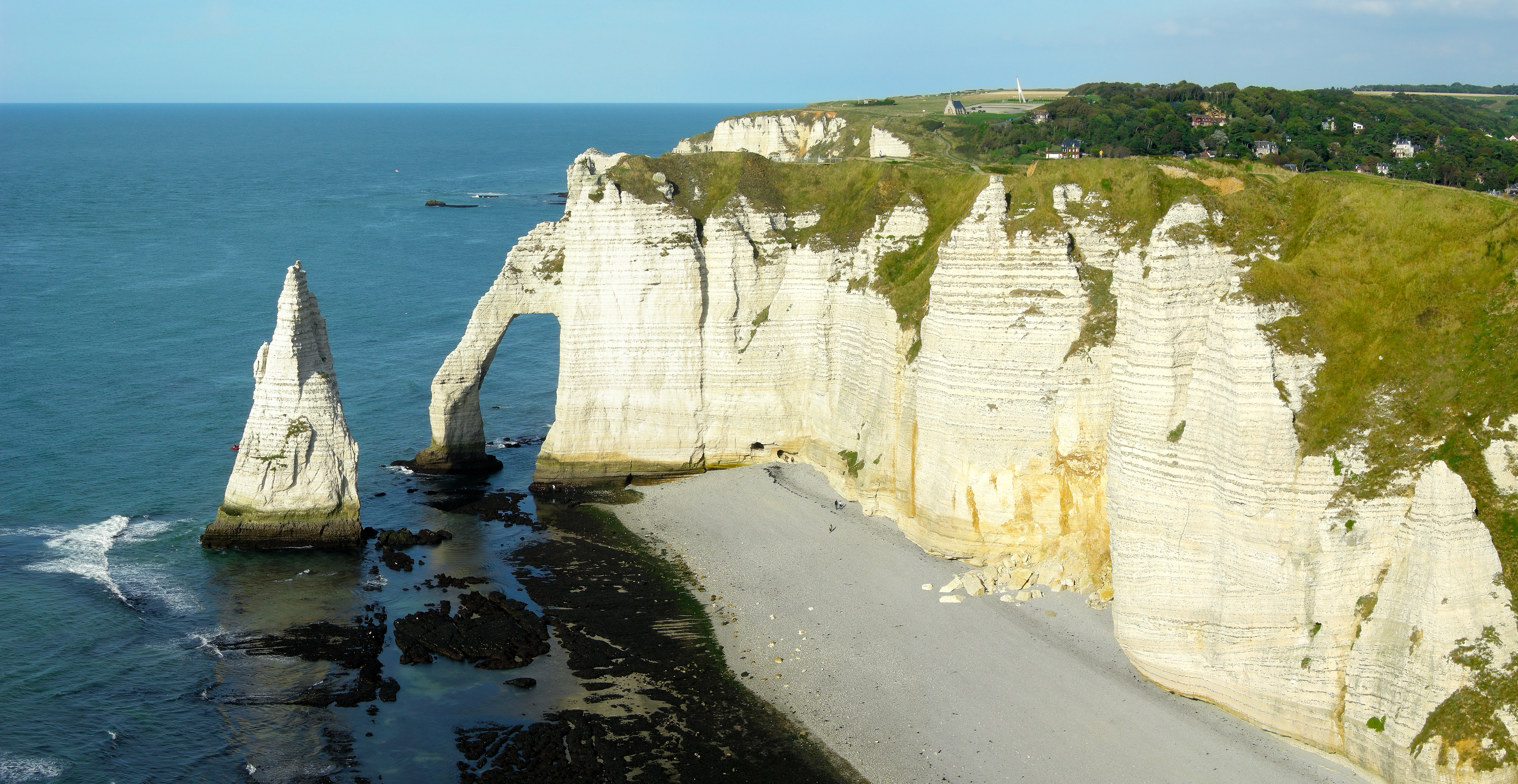 "L'Aiguille" and the "Porte d'Aval" to the west of Étretat in Normandy, seen from the "Pointe de La Manneporte".